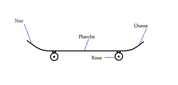 analyse